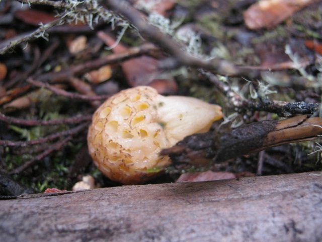 Cyttaria gunii on leaf litter below Nothofagus cunninghamii. Found on the Adamsons Peak track, February 2012.